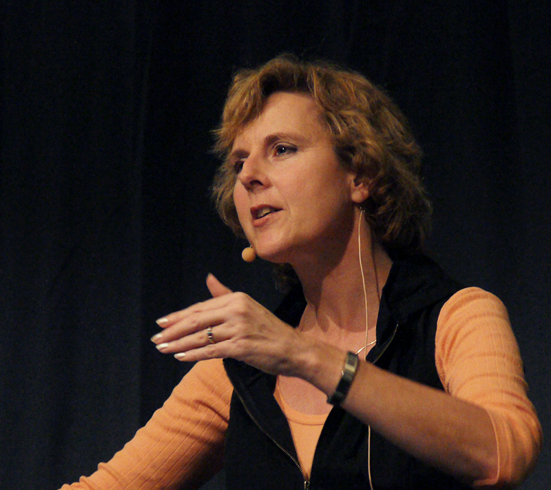 Connie Hedegaard, Danish politician, minister and chairman for the U.N. Climate Change Conference in Copenhagen 2009, and from january 2010 European Commissioner for the Climate.